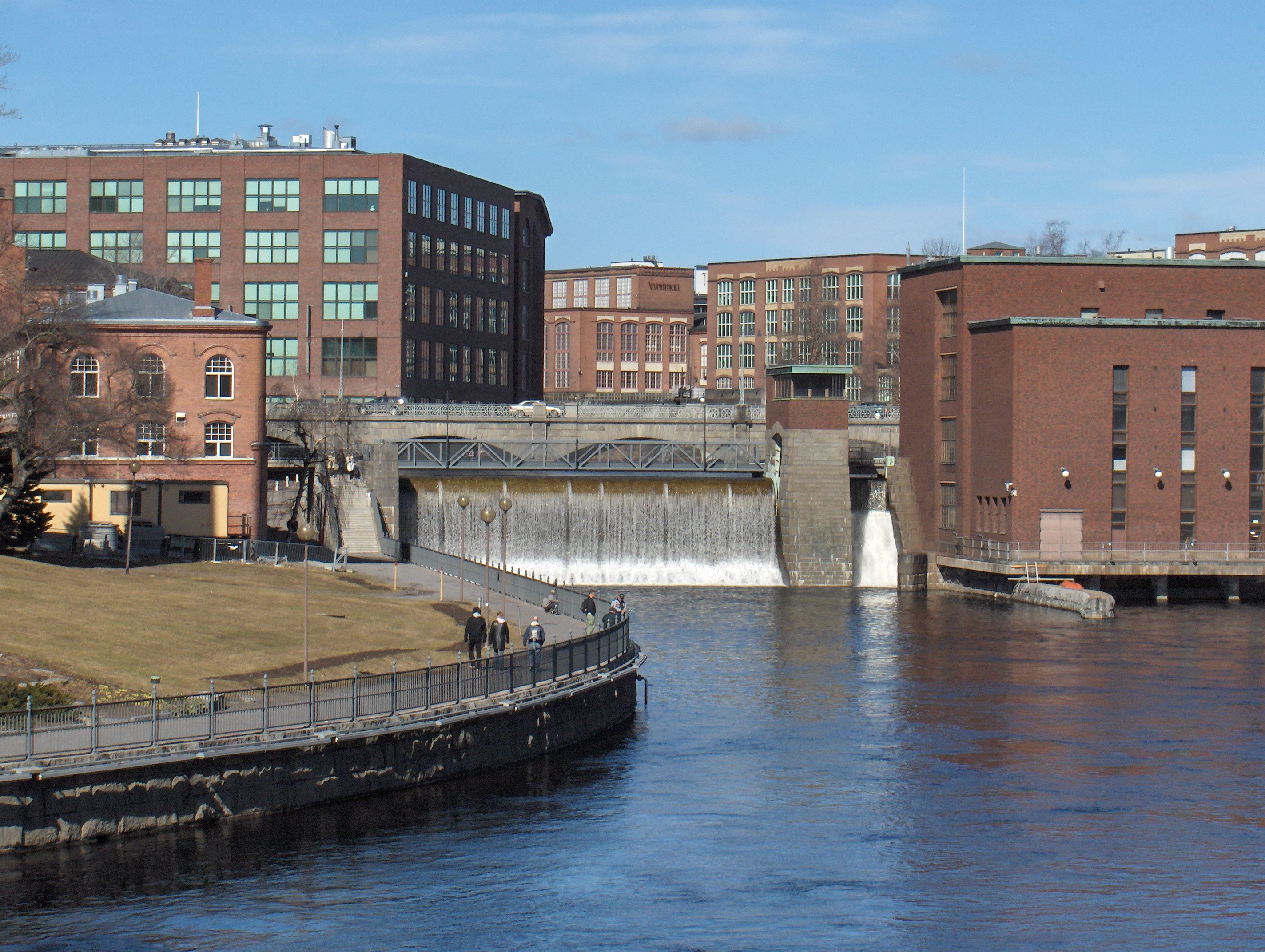 The old Finlayson works, Tampere, Finland